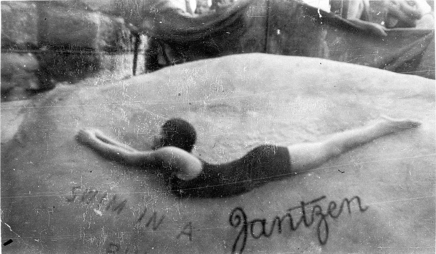 Sand sculpture by John Suchomlin advertising Jantzen swimsuits, at Manly, New South Wales. Created using only water, sand and colouring